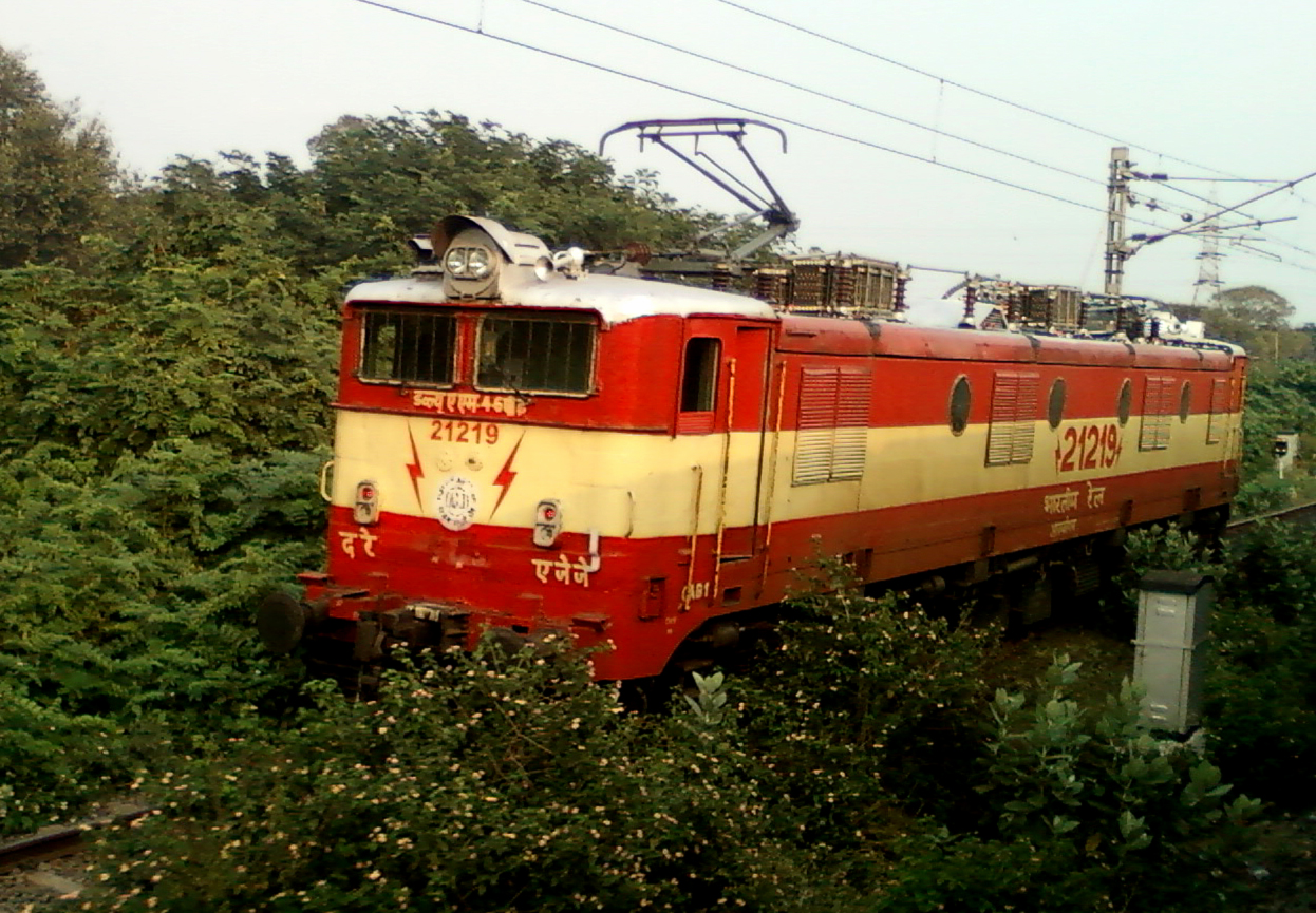 WAM 4 series loco at Visakhapatnam train station